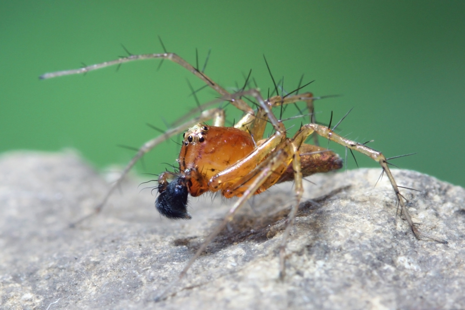 This is a photograph of a striped lynx spider (Oxyopes salticus) found at Shelby Park in Nashville, Tennessee. It is an adult male about 4–5 mm in length. It was shot with a Canon EOS 450D, 100mm f/2.8 USM Macro Lens, and 25mm extension tube.